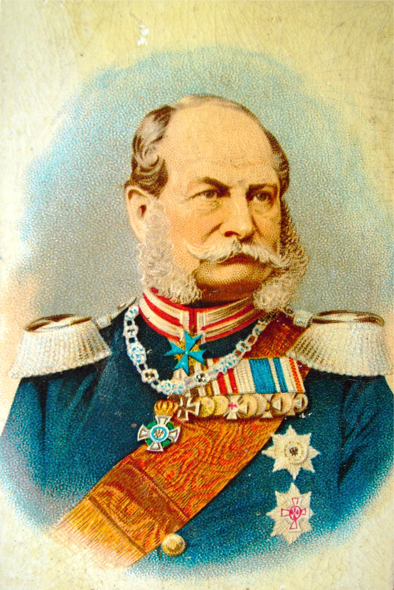 Wilelm I. Emperor of germany